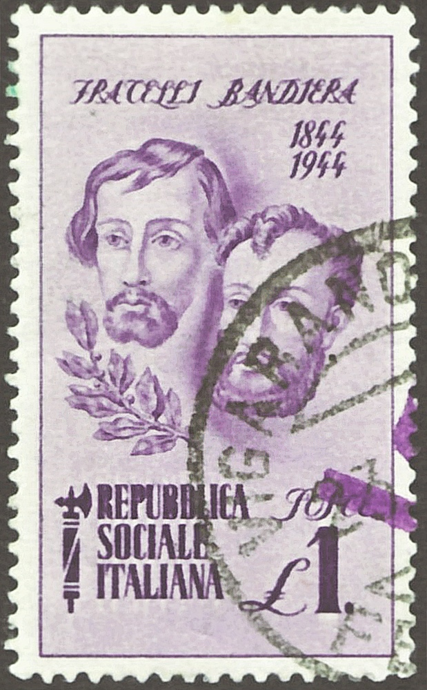 Stamp of the Italian Social Republic; 1944; commemorative stamp of the issue "100th anniversary of death of the Brothers Bandiera"; drawing of the faces of Attilio and Emilio Bandiera; stamp postmarked in Vigarano Mainarda (province of Ferrera, Region Emilia-Romagna) Stamp: Michel No. 664; Yvert & Tellier: IT-RSI No. 42; Scott: IT-RSI No. 33 Color: violet Watermark: none Nominal value: 1 Lira (₤) Postage validity: from 6 December 1944 until 31 December 1945 date QS:P,+1944-00-00T00:00:00Z/8,P580,+1944-12-06T00:00:00Z/11,P582,+1945-12-31T00:00:00Z/11 Stamp picture size (printed area): 21.0 x 37.0 mm